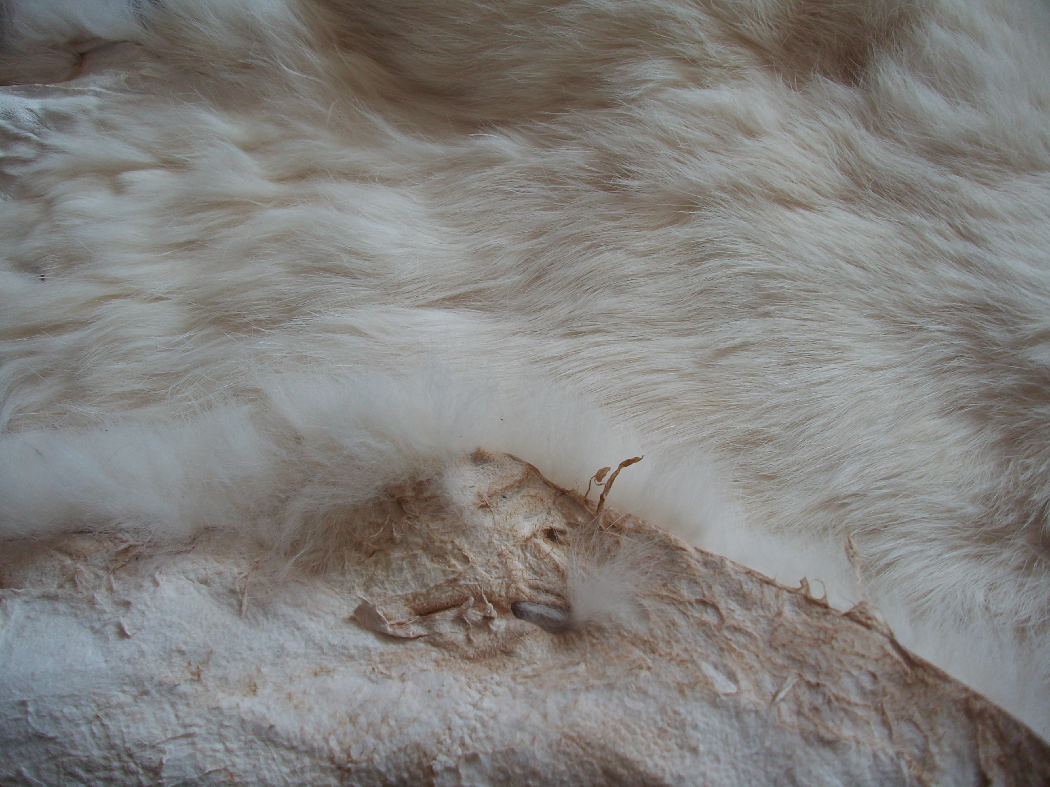 This is a rabbit pelt that has been tanned. Possibly using inoragnic (chromic) tanning agents. You can see the fur side with some loss of fur and the underside showing staining from the tanning agent.